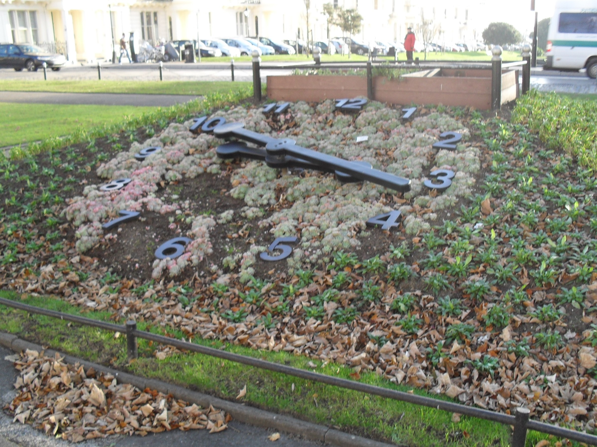 The floral clock at Palmeira Square, Hove, City of Brighton and Hove, England. Planted in 1952 for the Coronation of Queen Elizabeth II.